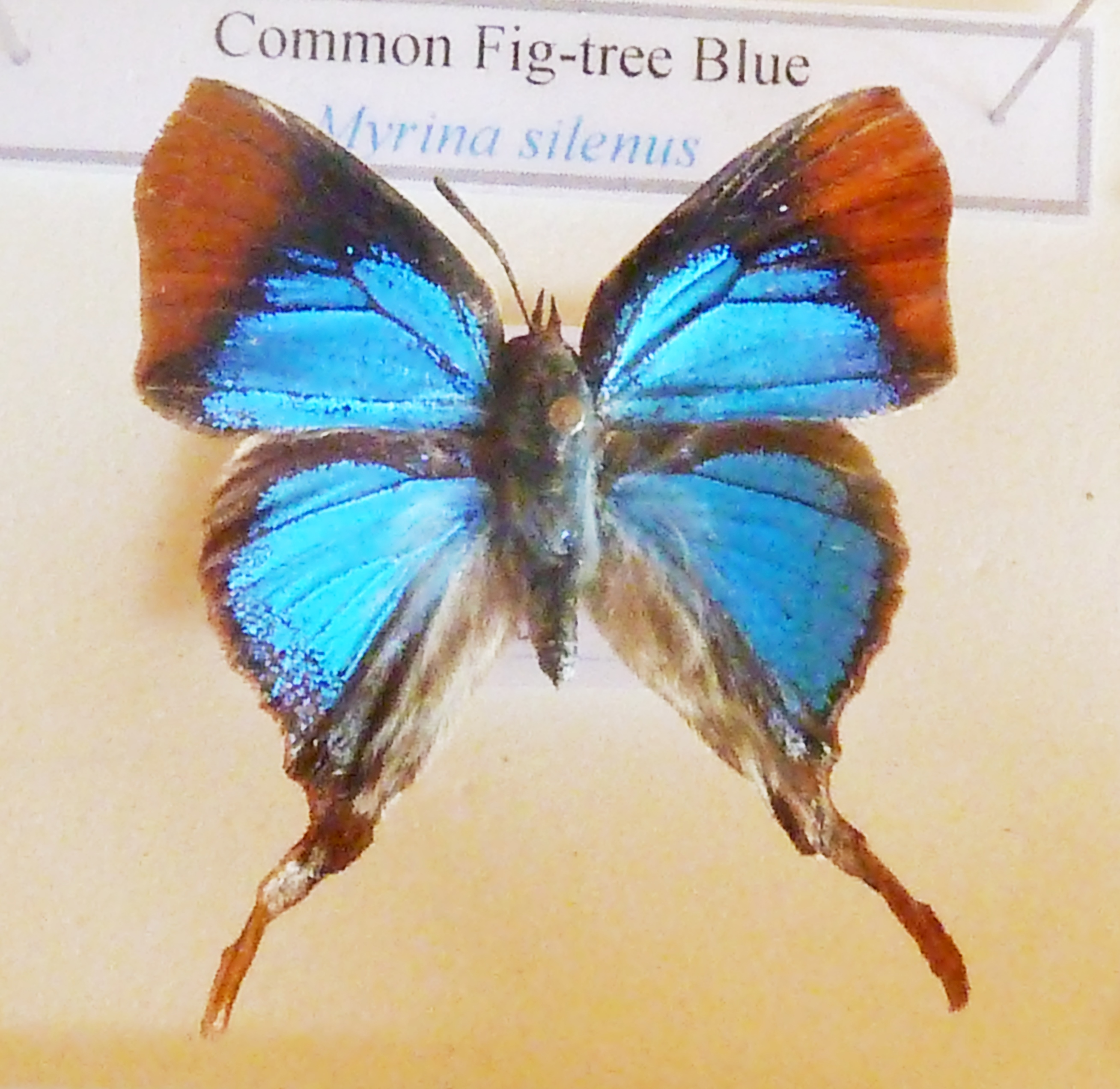 Common fig-tree blue in the collection of J Dobson